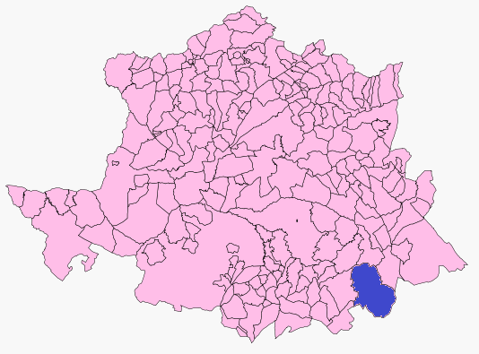 Map of Logrosán